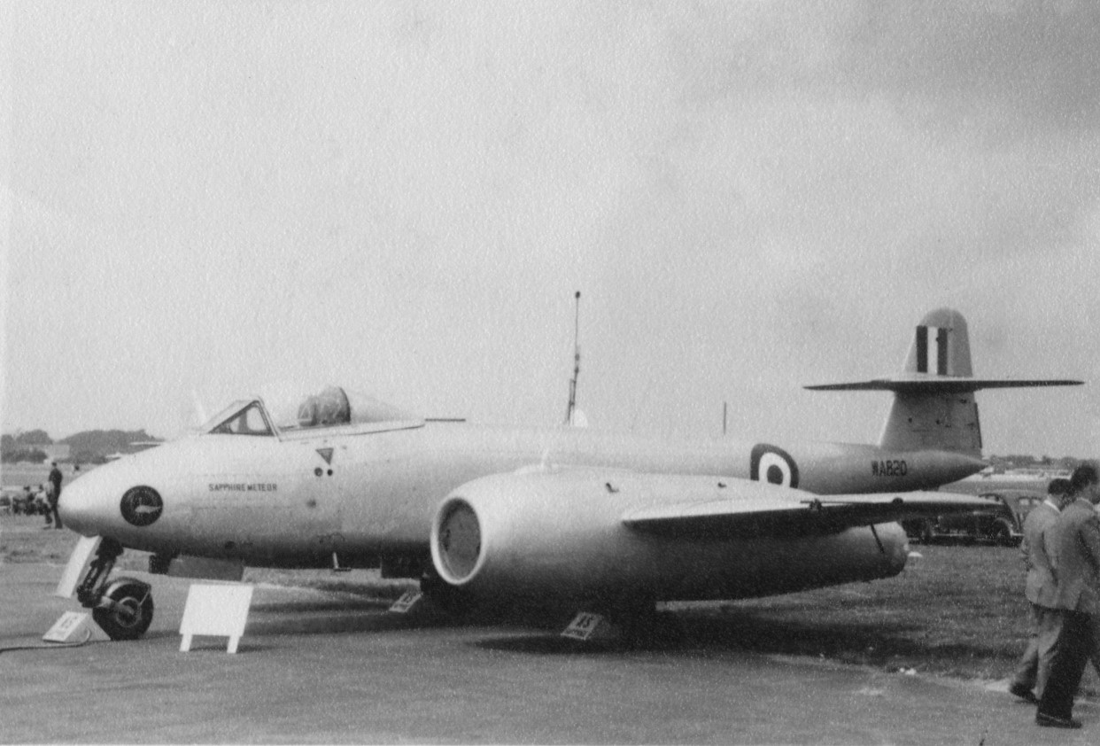 Gloster Meteor F8 WA820, powered by two Armstrong Siddeley Sapphire turbojets.